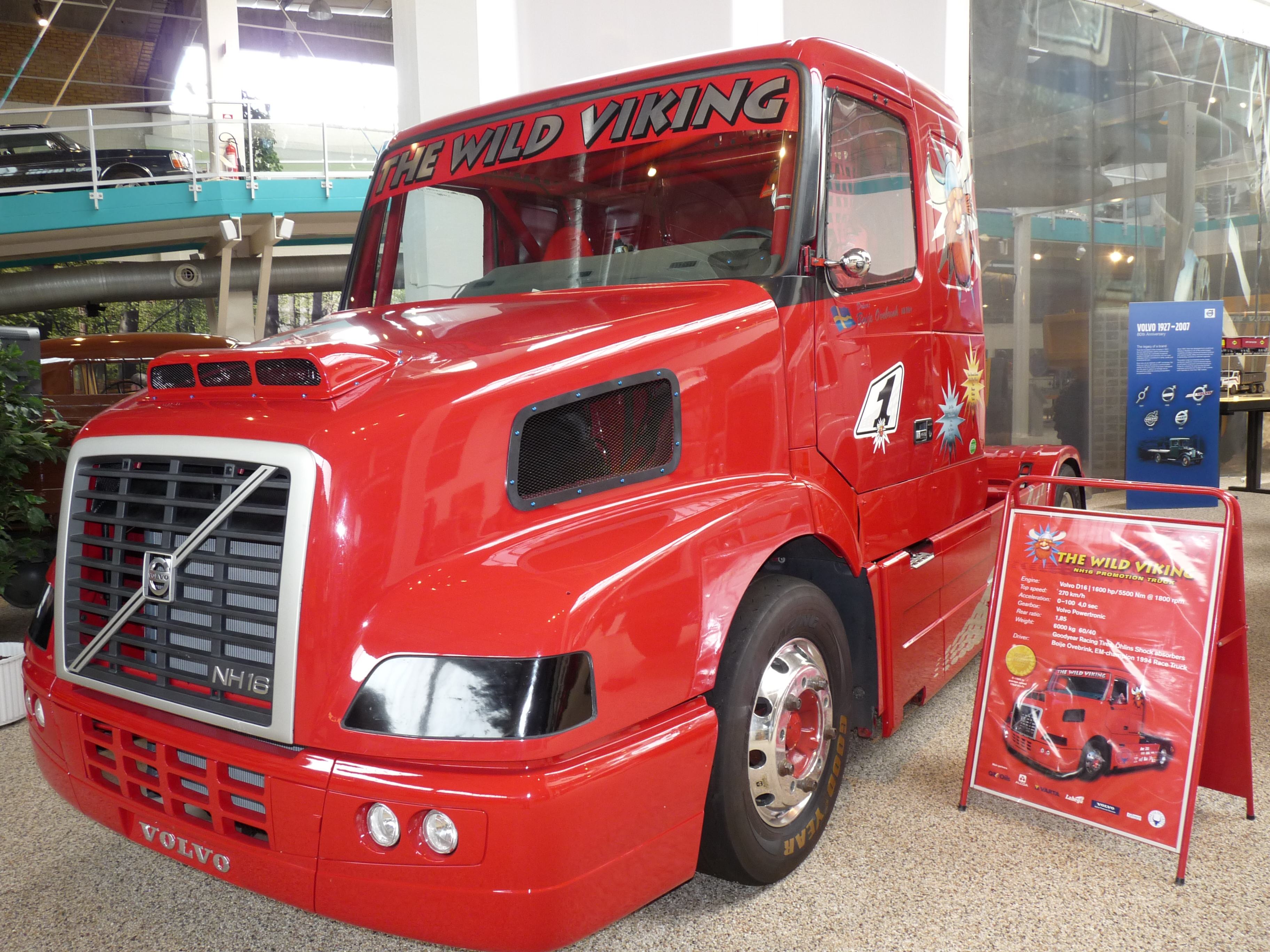 Volvo NH16 racing truck at Volvo Museum in Gothenburg, Sweden